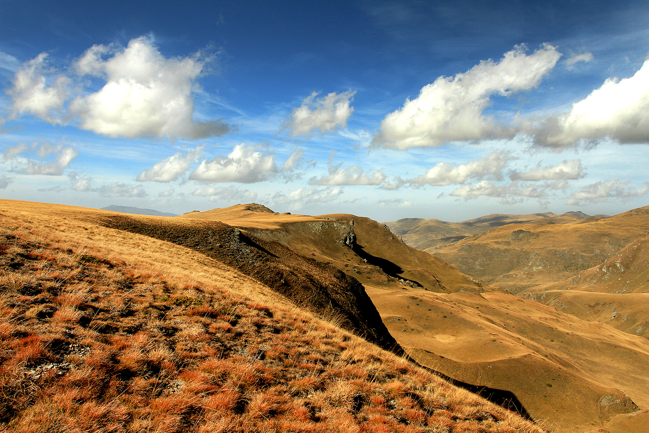 Endless mountain of Zllipotok in the most southern Sharr of Kosovo